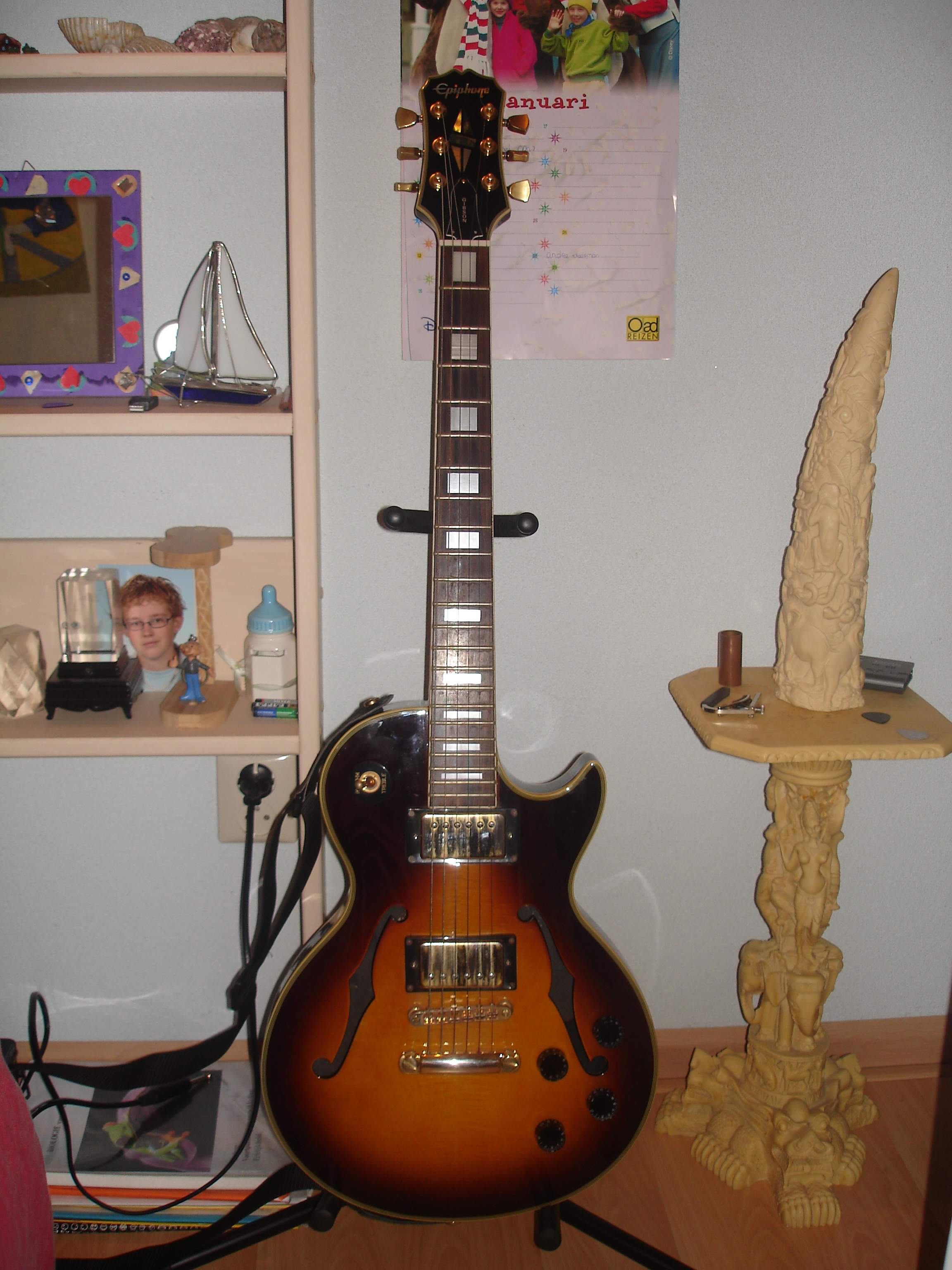 1996 Epiphone rare Les Paul ES Custom.